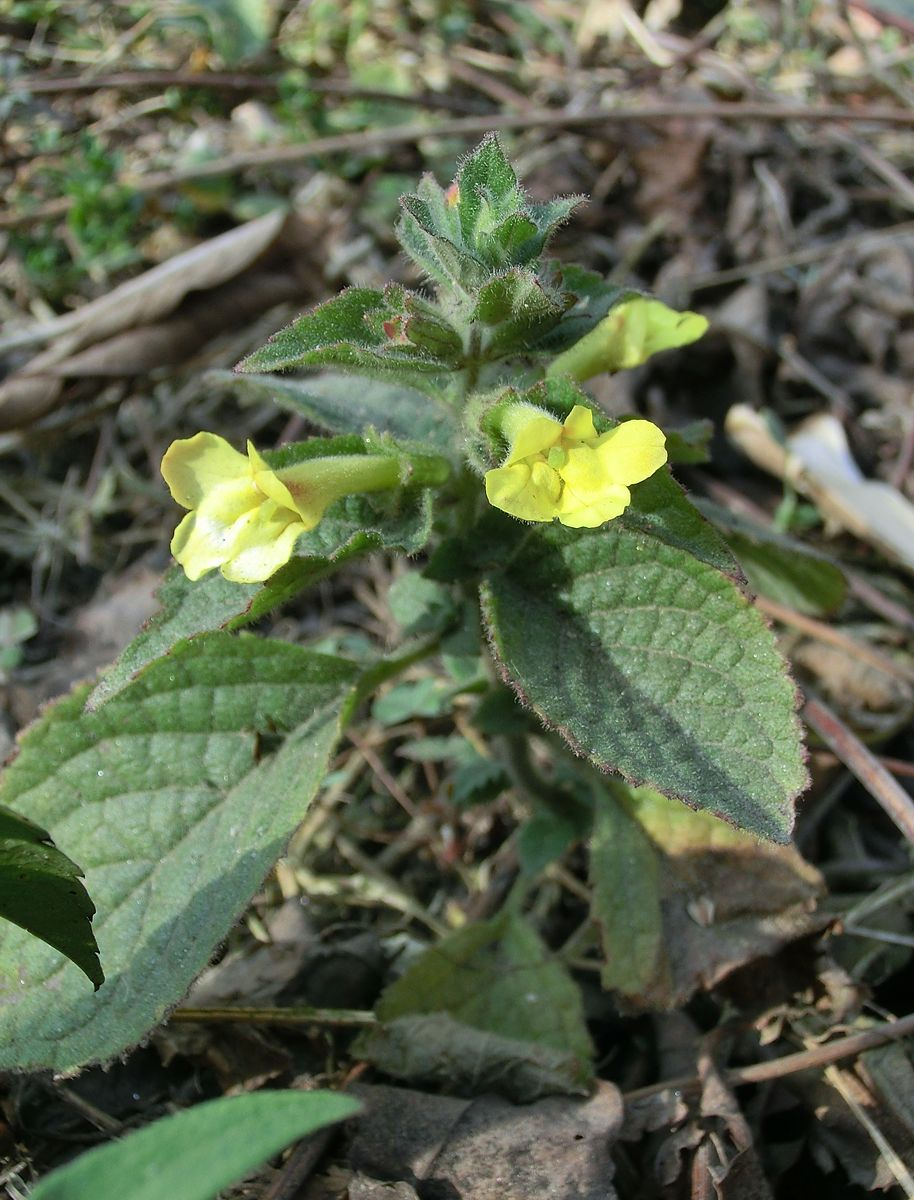 Lindenbergia grandiflora. Nepal, between Nomoboddha and Dhulikhel (east of Kathmandu).